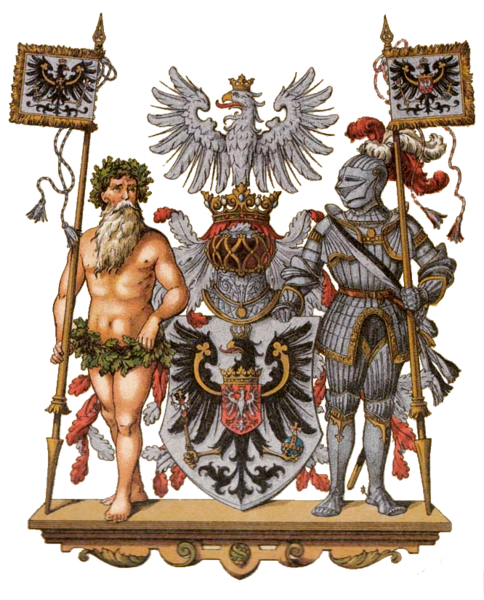 Posen.